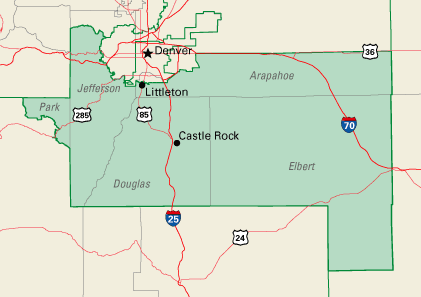 From